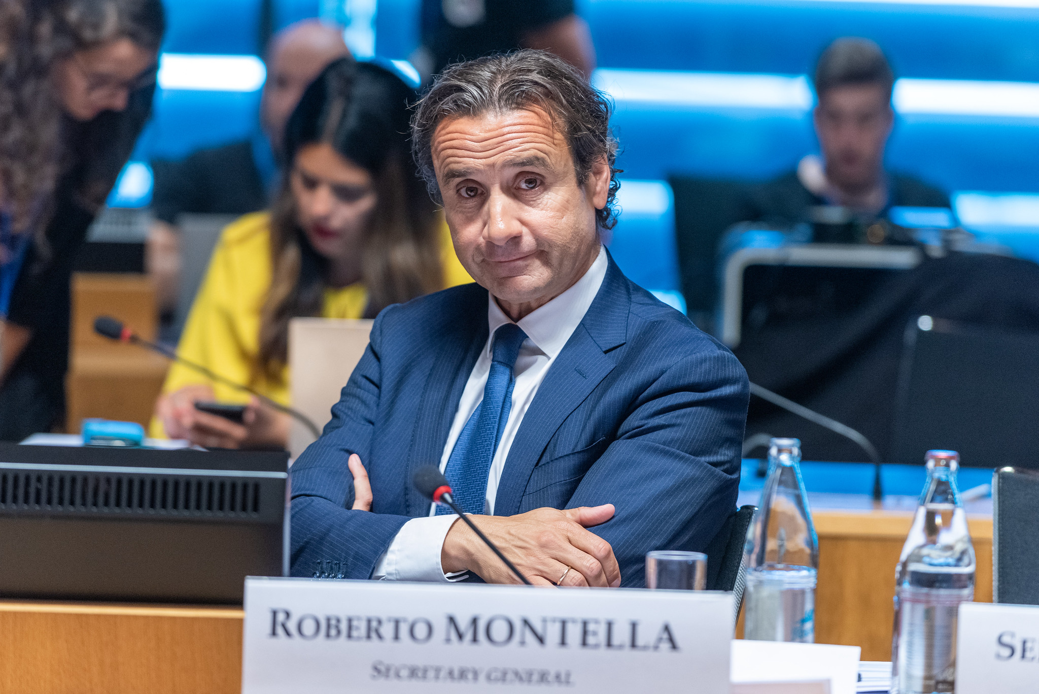 Secretary General of the Parliamentary Assembly of the OSCE, Roberto Montella